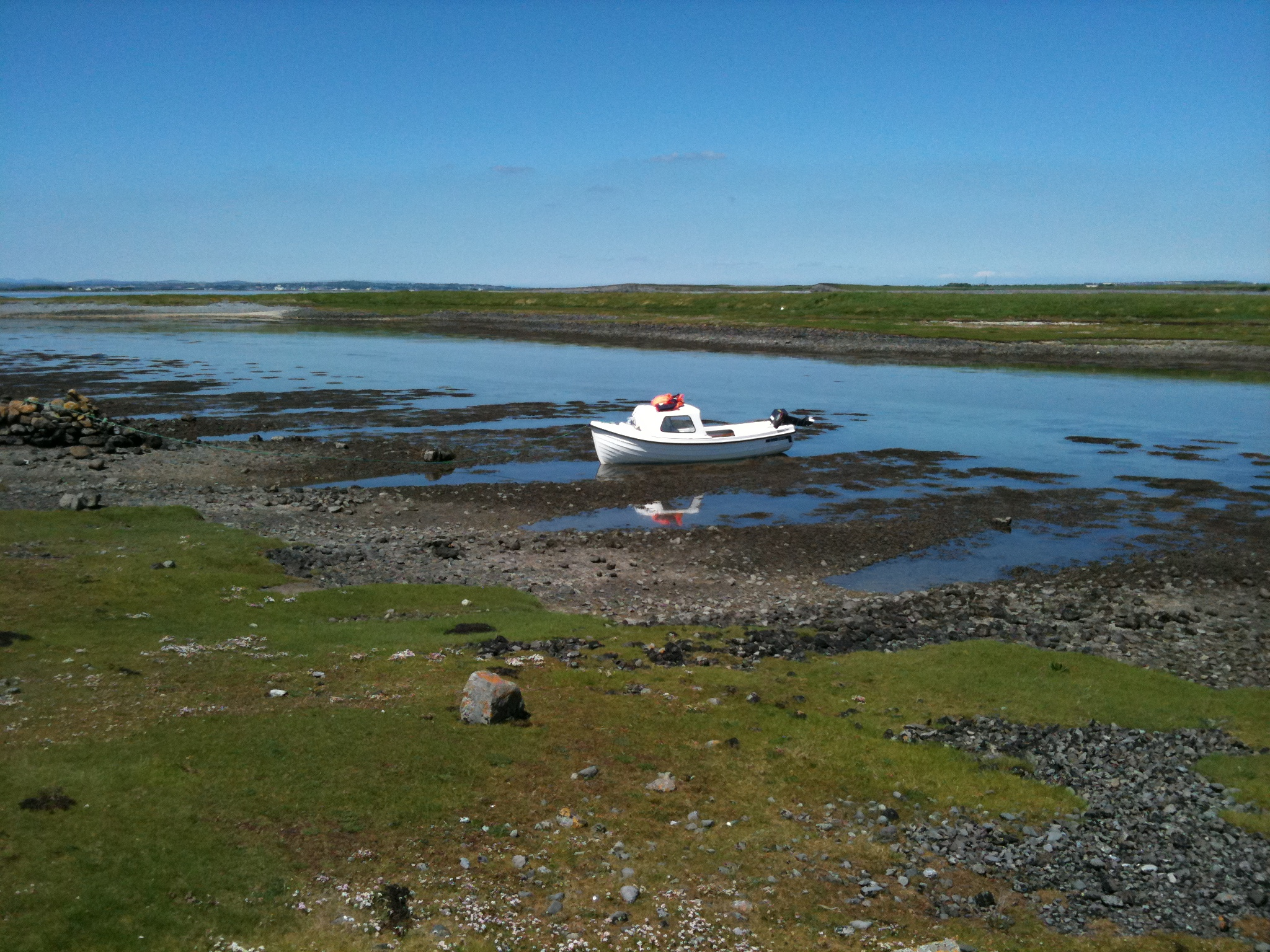 This view, looking NW, shows Naust nos. 6-8 of the series of 15 which are cut into the shingle and cobble shoreline of the North Mallmhuir. The boat (MV Robert Lloyd - length 4.9m) is moored in No. 6.